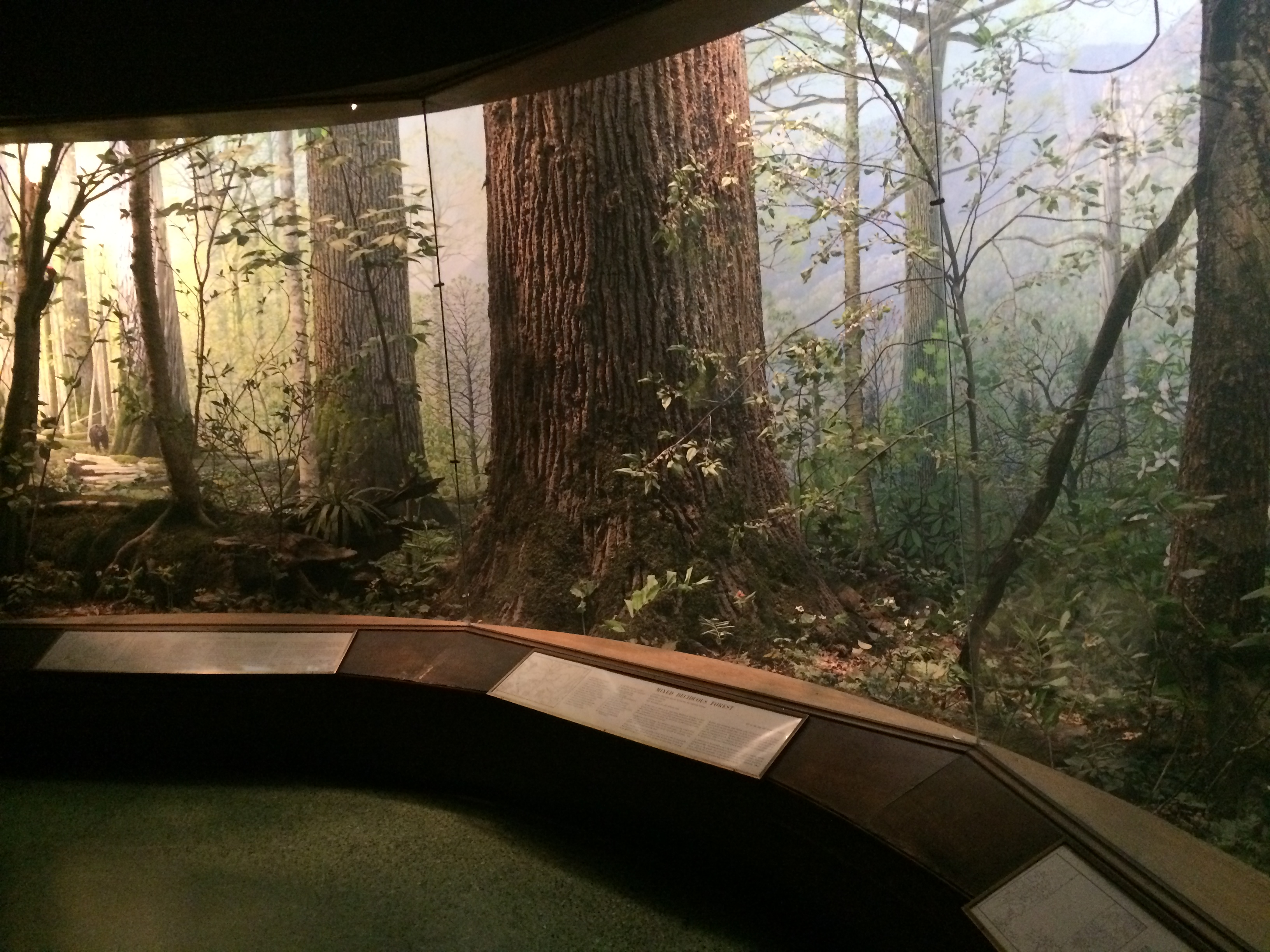 The Mixed Deciduous Forest diorama in the Hall of North American Forests, American Museum of Natural History